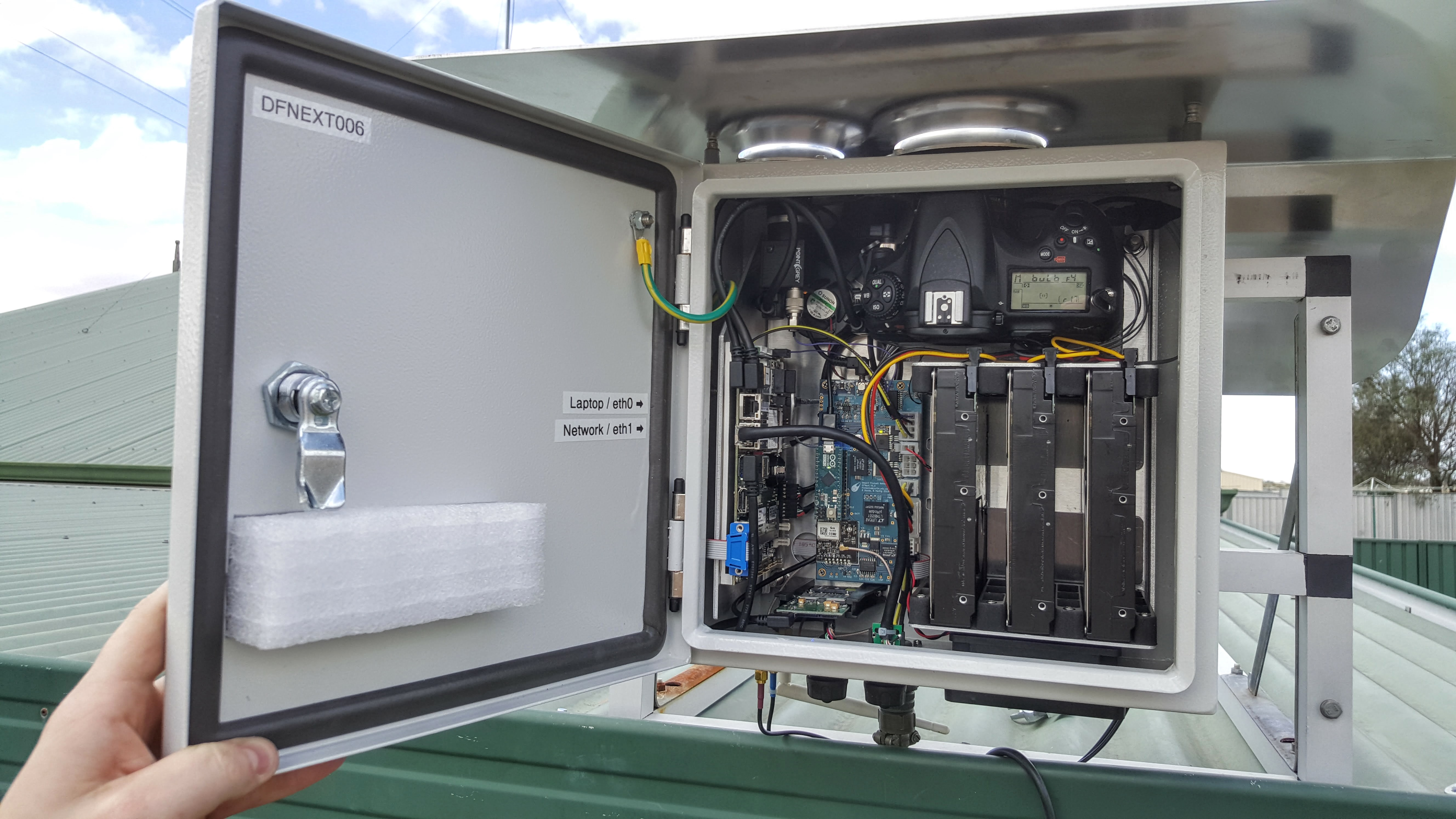 Internals of the latest iteration of the DFN observatories (as of August 2017) DSLR, HDDs, PCB and embedded PC are clearly visible.